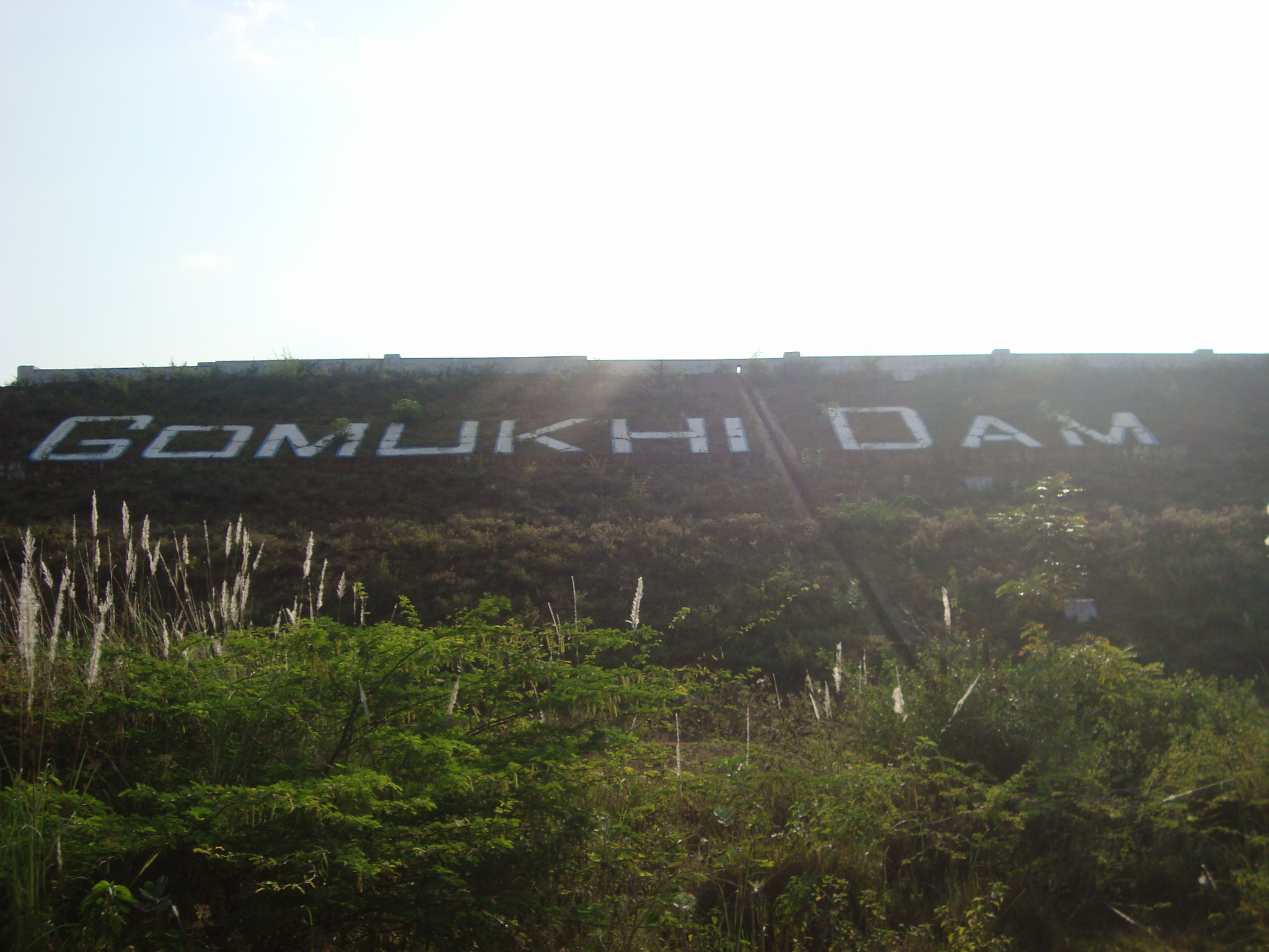 gomuki dam